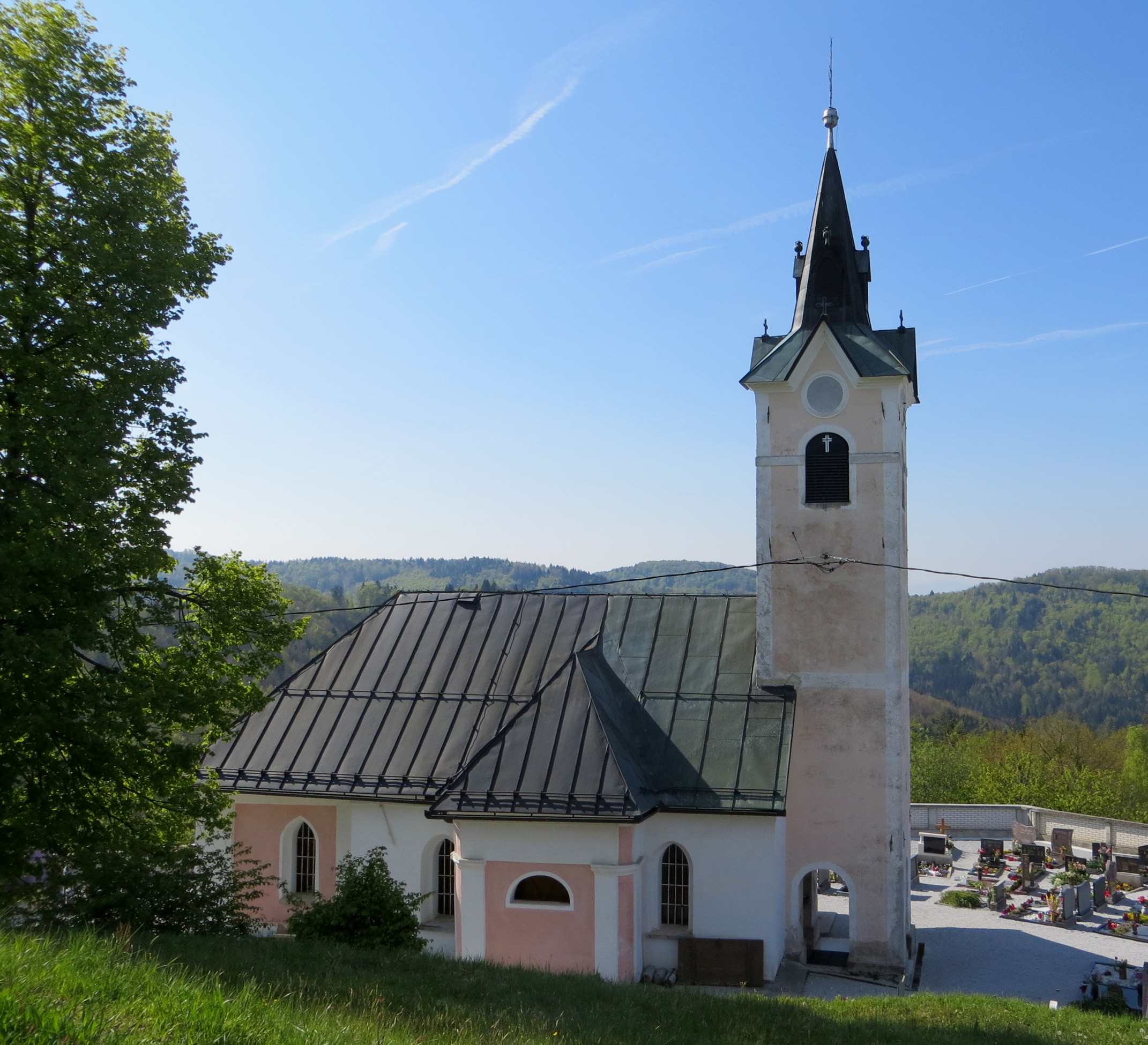 Sts. Hermagoras and Fortunatus Church in Jelša, Municipality of Šmartno pri Litiji, Slovenia